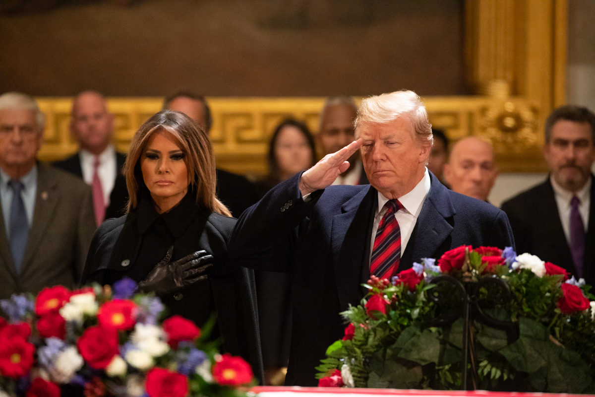 President Donald J. Trump, joined by First Lady Melania Trump, salutes at the casket of former President George H. W. Bush, as the First Couple pay their respects Monday, Dec. 3, 2018, at the U.S. Capitol in Washington, D.C. (Official White House Photo by Shealah Craiughead)